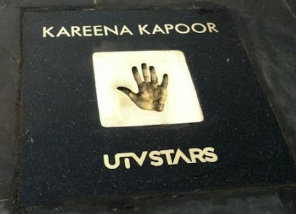 Indian actress Kareena Kapoor's hand-print at the Walk of the Stars; located at Bandra's Bandstand Promenade in Mumbai, India